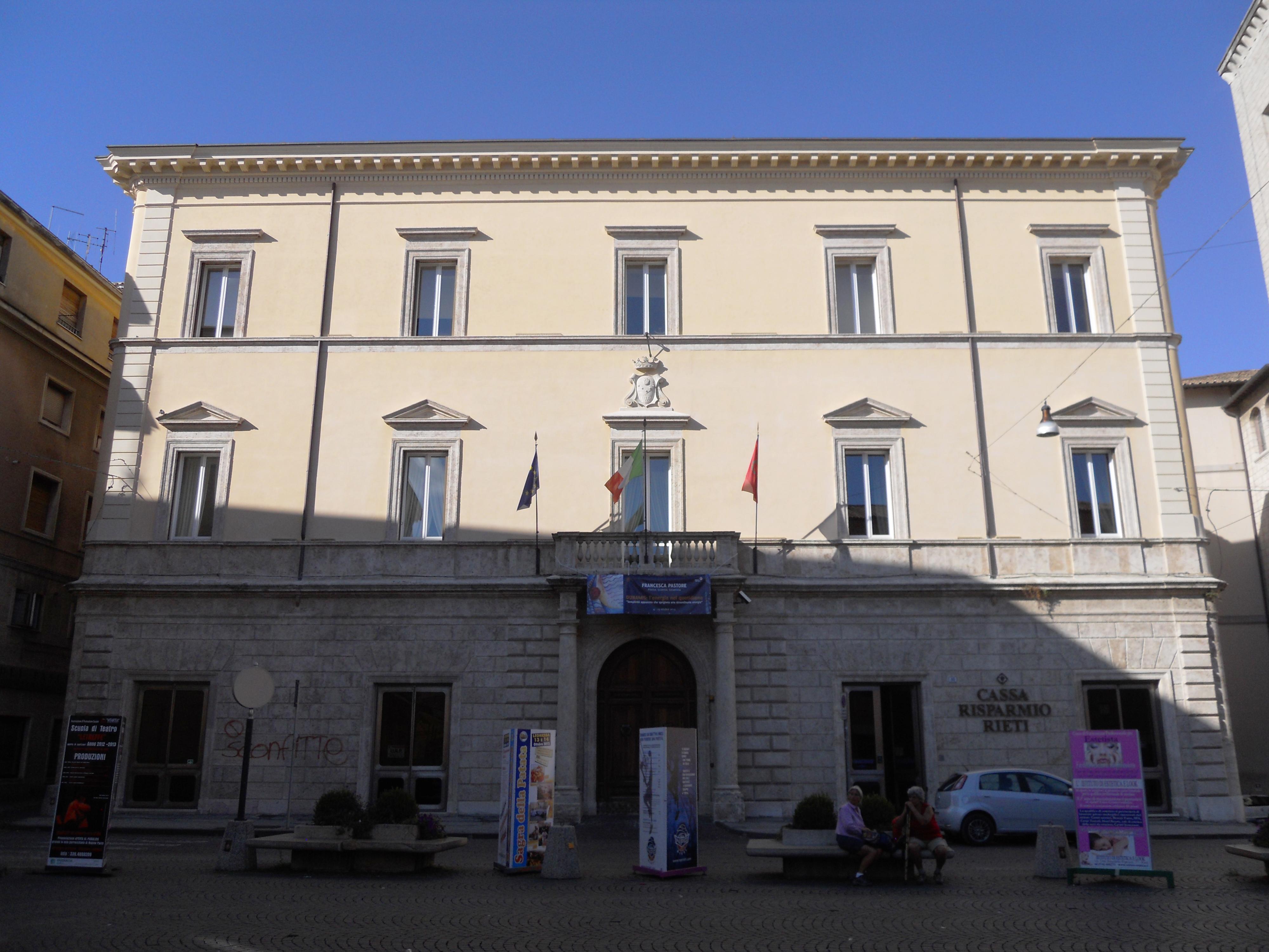 Dosi Palace - Rieti, Italy